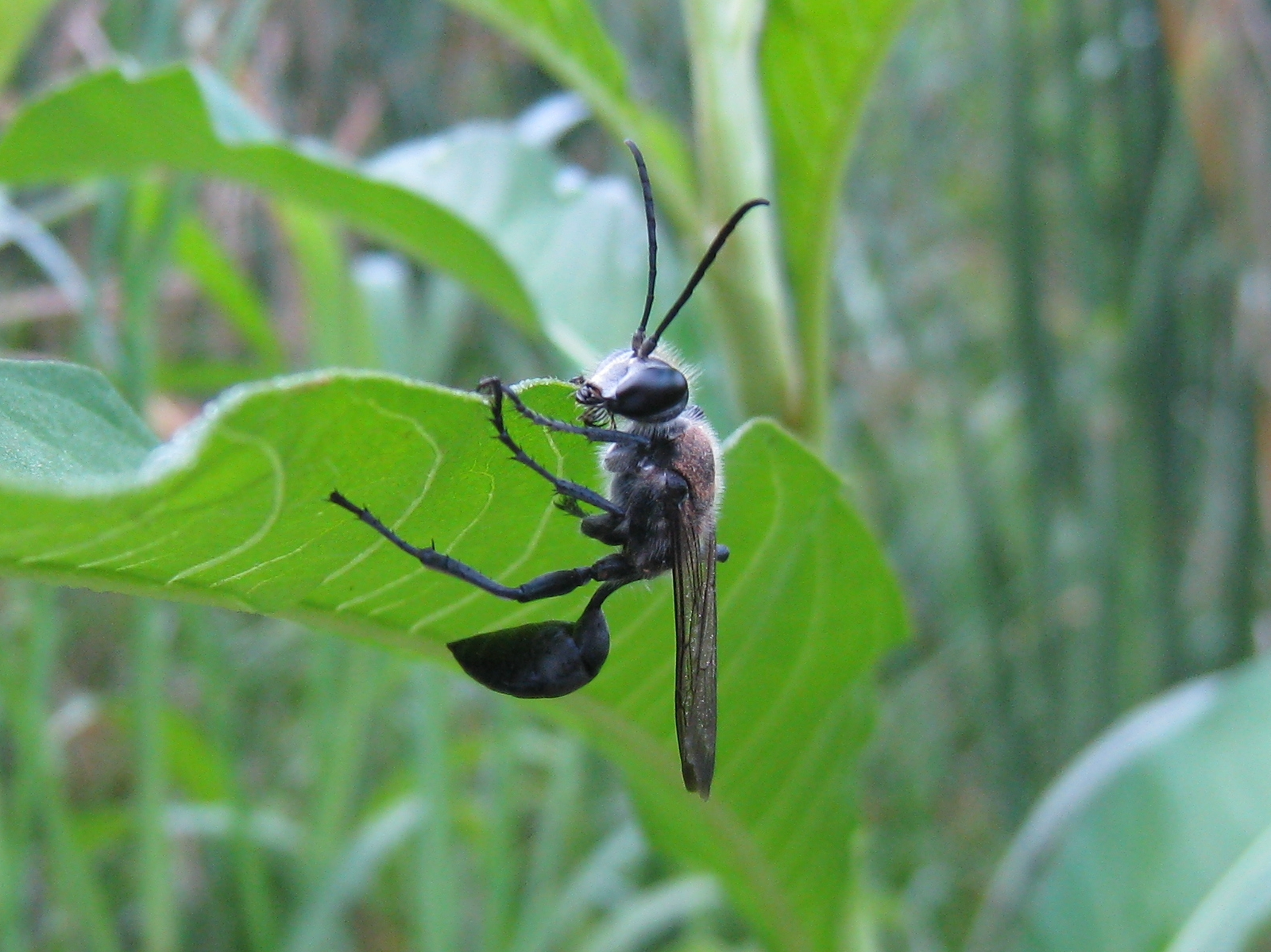 Black wasp. Probably a Sphex, aka Digger wasp. Paruna Reserve, Como NSW Australia, January 2010.